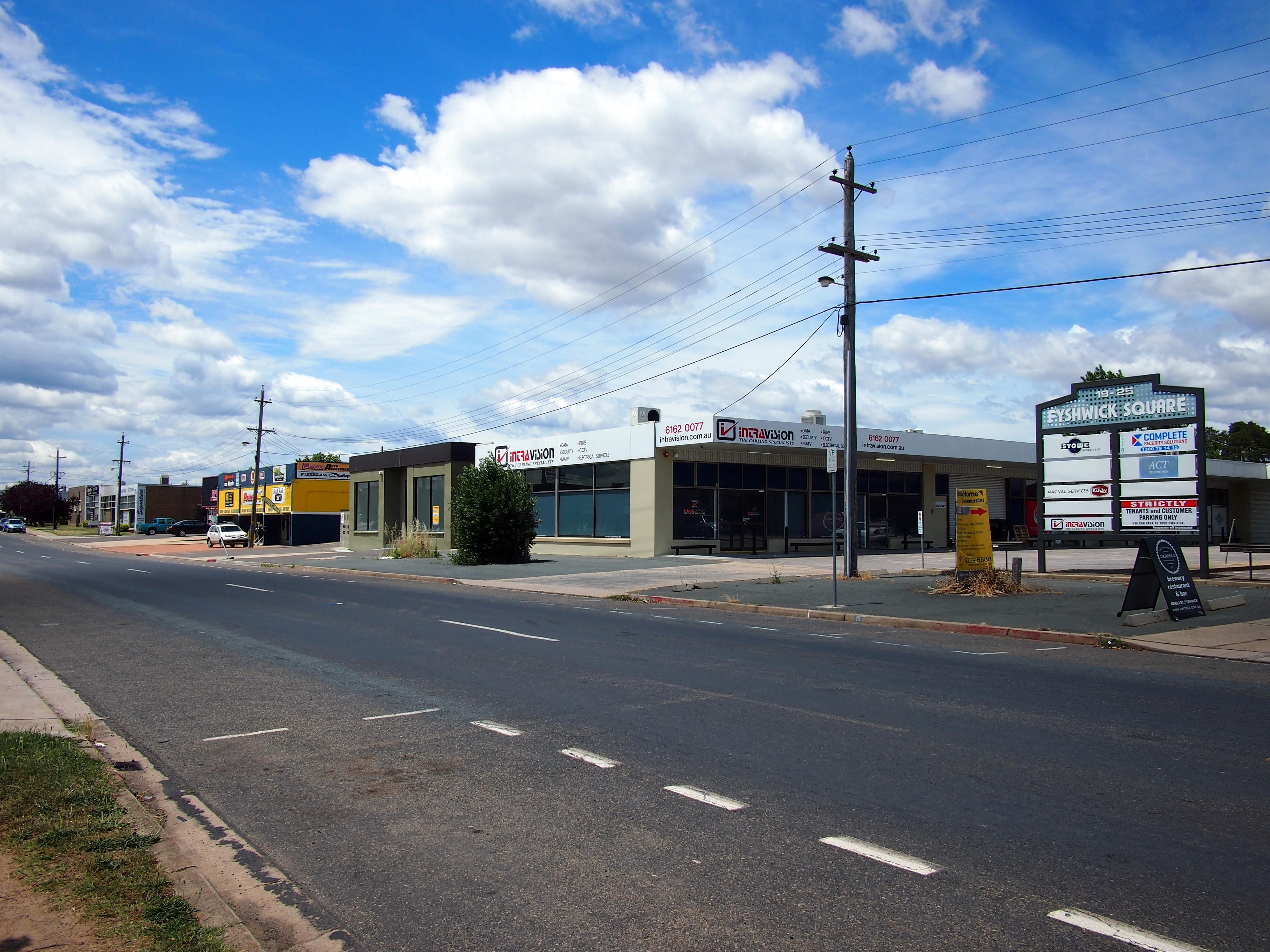 Part of Kembla Street in Fyshwick